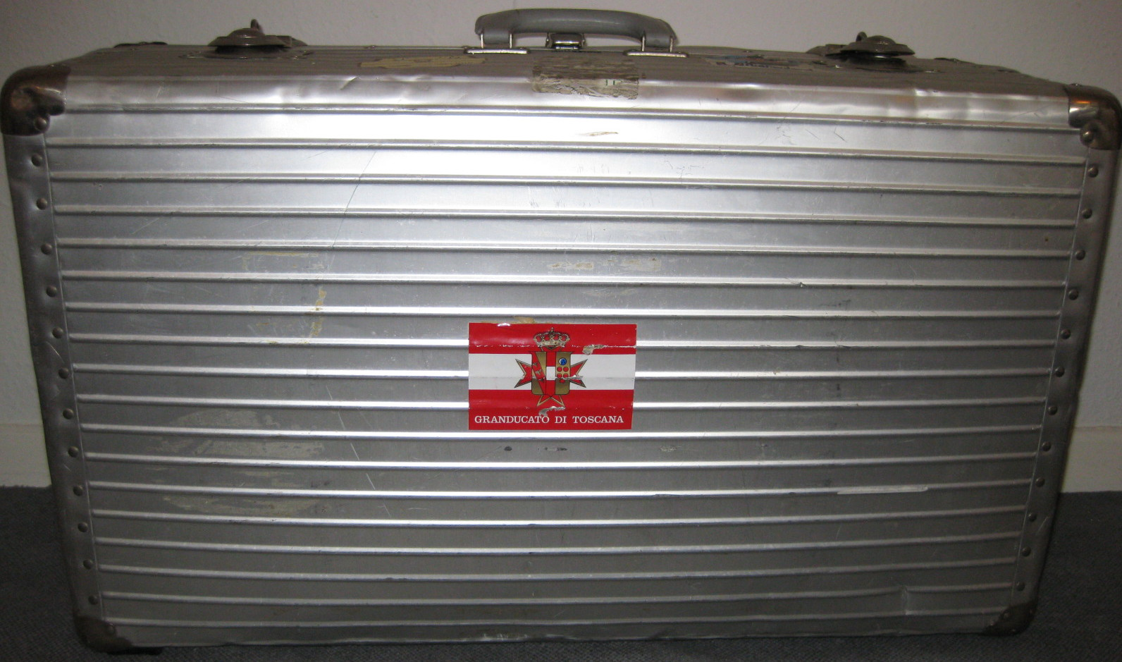 Rimowa-suitcase early 1980ties